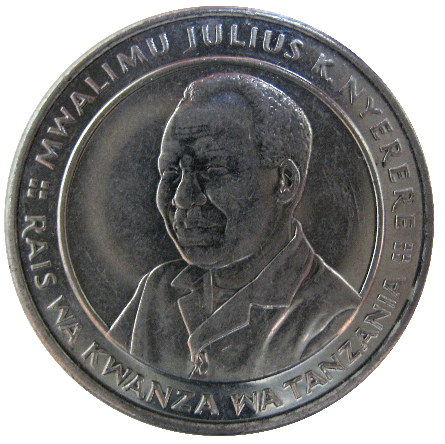 10 Tanzanian shillings coin, back, displaying Julius Nyerere's portrait